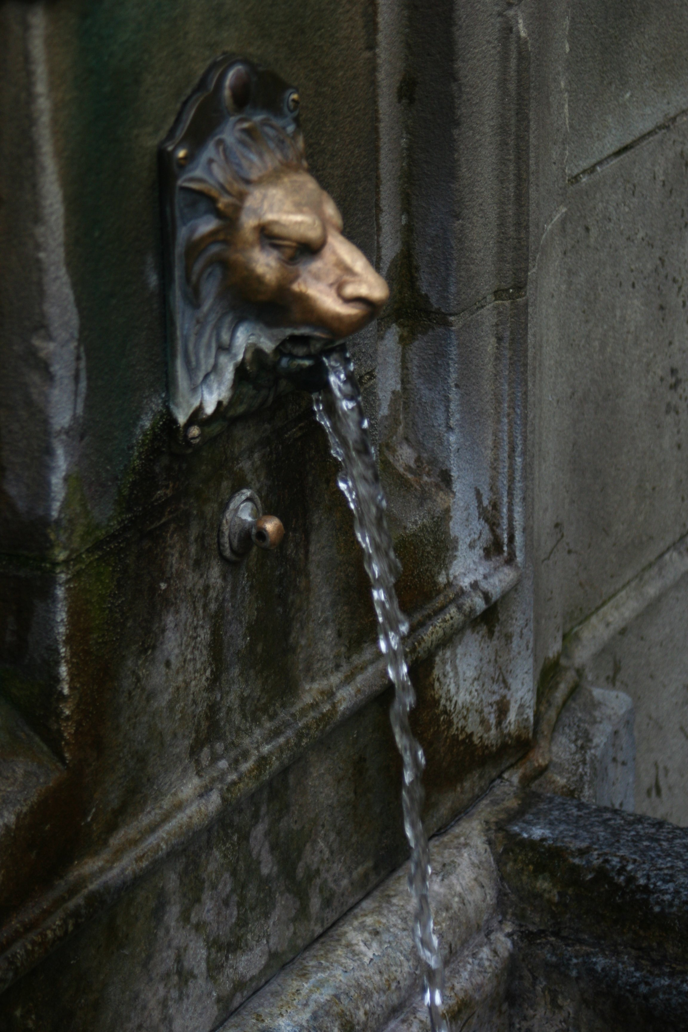 St. Ann's Well, Buxton, Derbyshire, England.